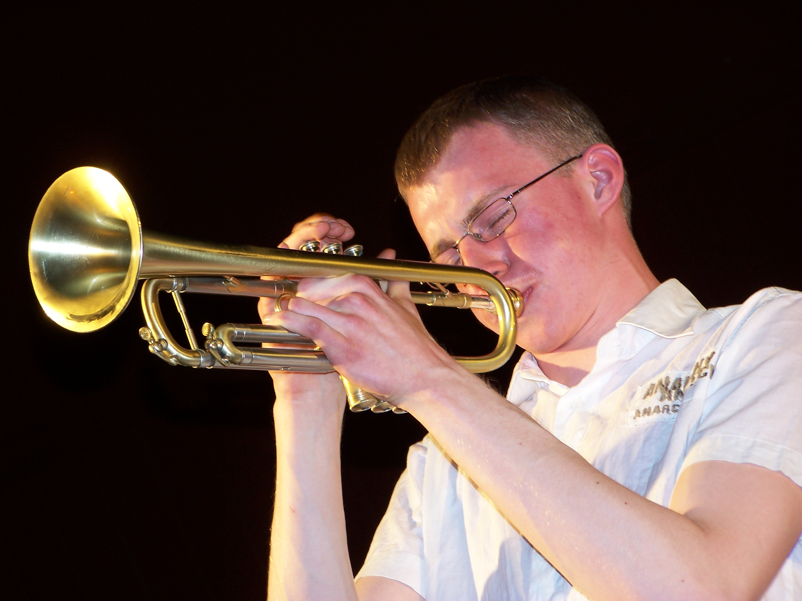 Piotr Schmidt. 1st Silesian Jazz Festival.